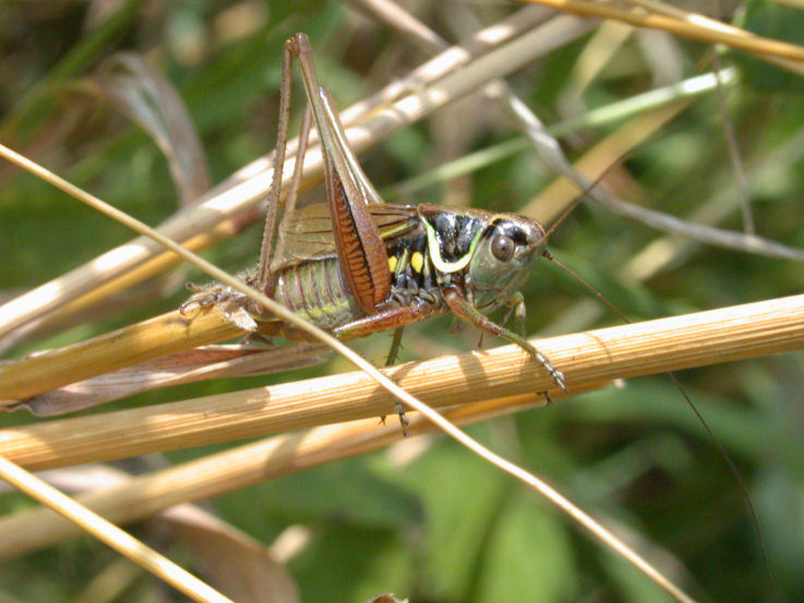 Roesel's Bush Cricket, Metrioptera roeselii, Barnwell Local Nature Reserve, Cambridge, England 1 Aug 2004. Photograph by Keith Edkins.